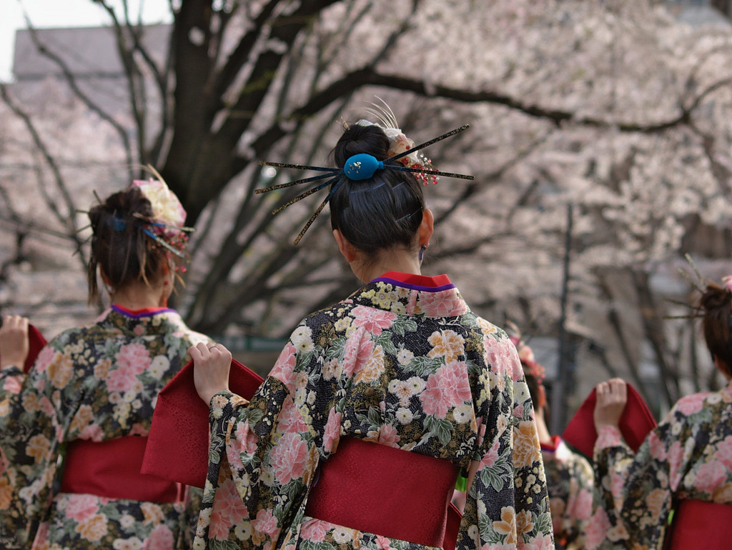 Sakura Festival 2009 in Sagamihara